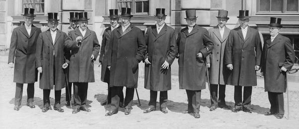 Ministry of Sweden, 1930. Prime Minister Carl Gustaf Ekman's second term.